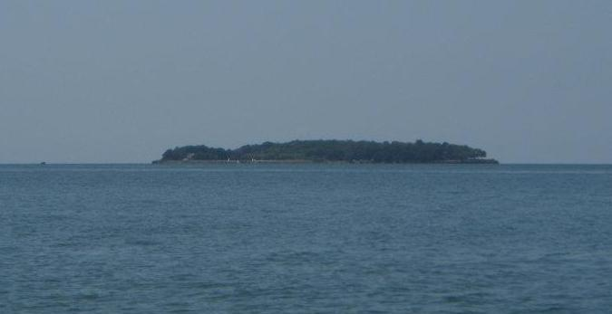 Rattlesnake Island as viewed from the southeast.